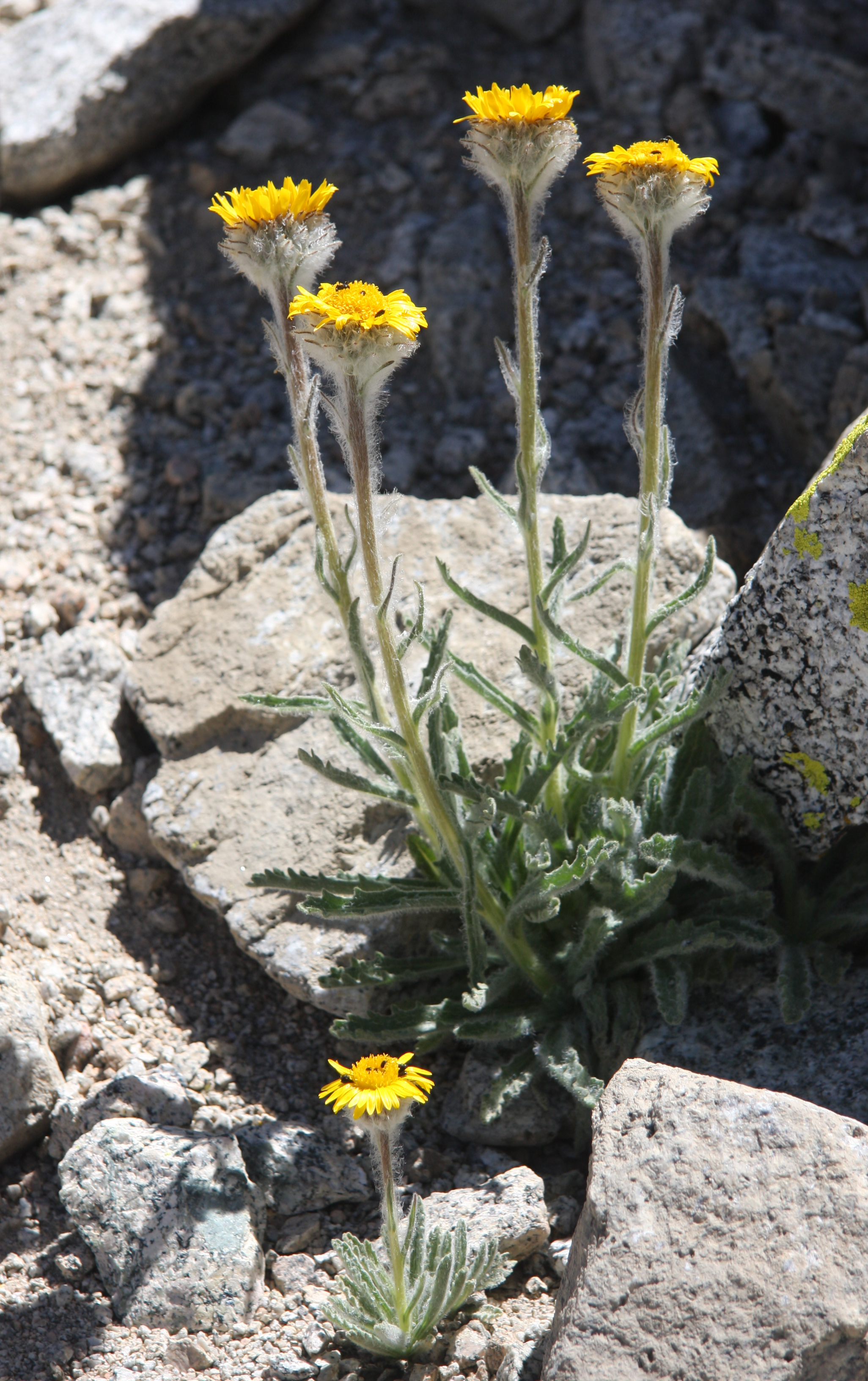 Alpine gold (Hulsea algida’’) — side view of flower clump with extremely wooly stems. At about 3,680 m (12,070 ft) along trail North of Forester Pass, Kings Canyon National Park, Sierra Nevada, California.